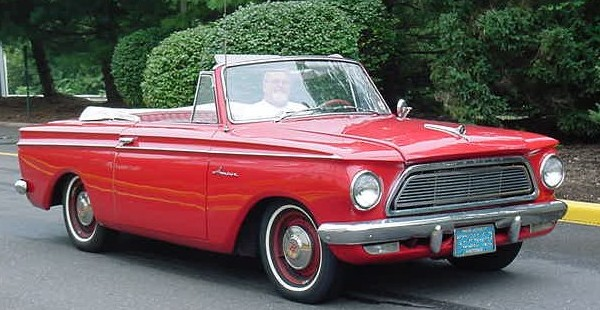 American Motors (AMC) vehicle - 1962 Rambler American - 2-door convertible. Picture taken at the 2003 AMCRC show that was held in Somerset, New Jersey.